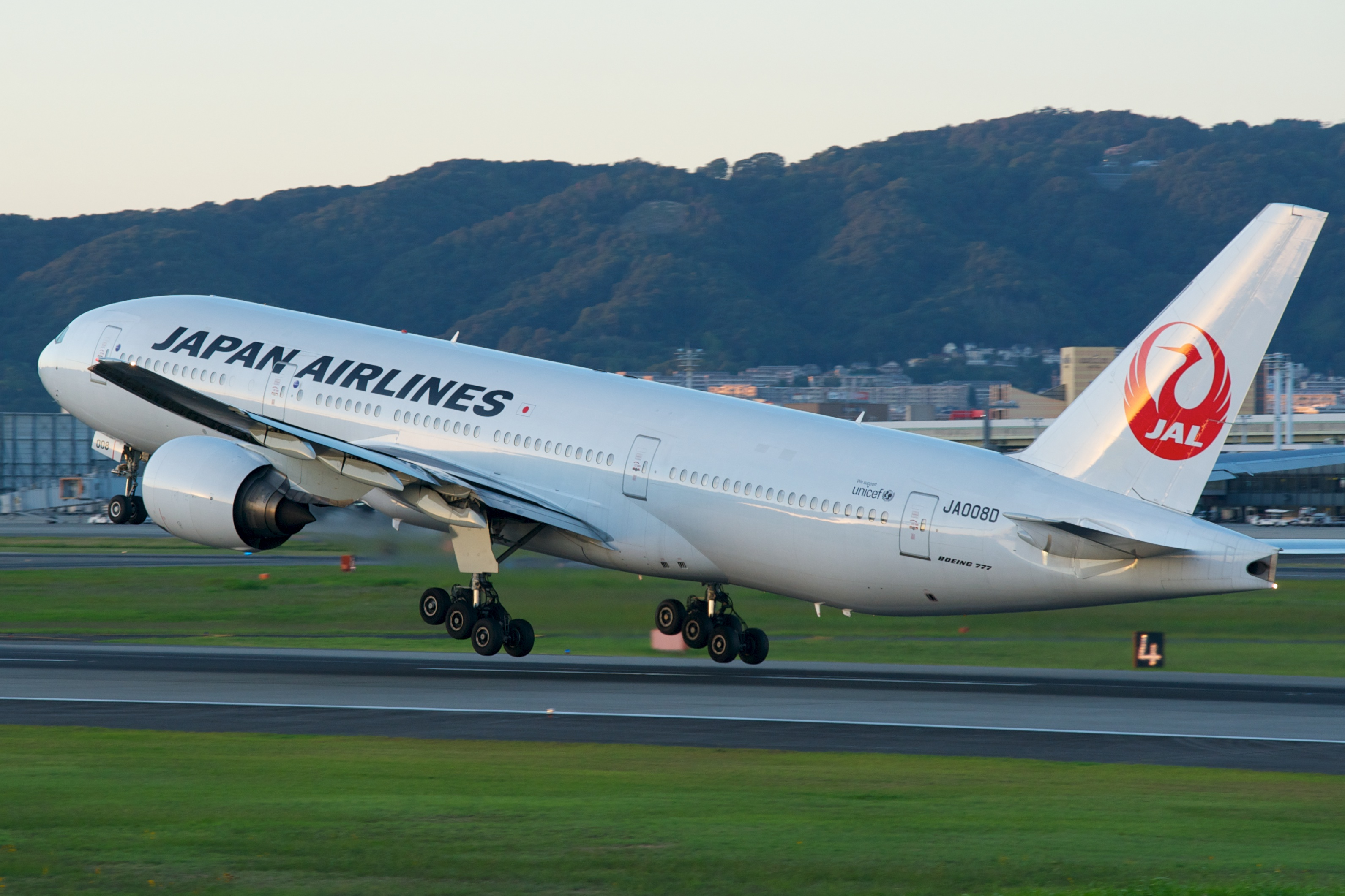 JAL 777 back to Haneda at last light.